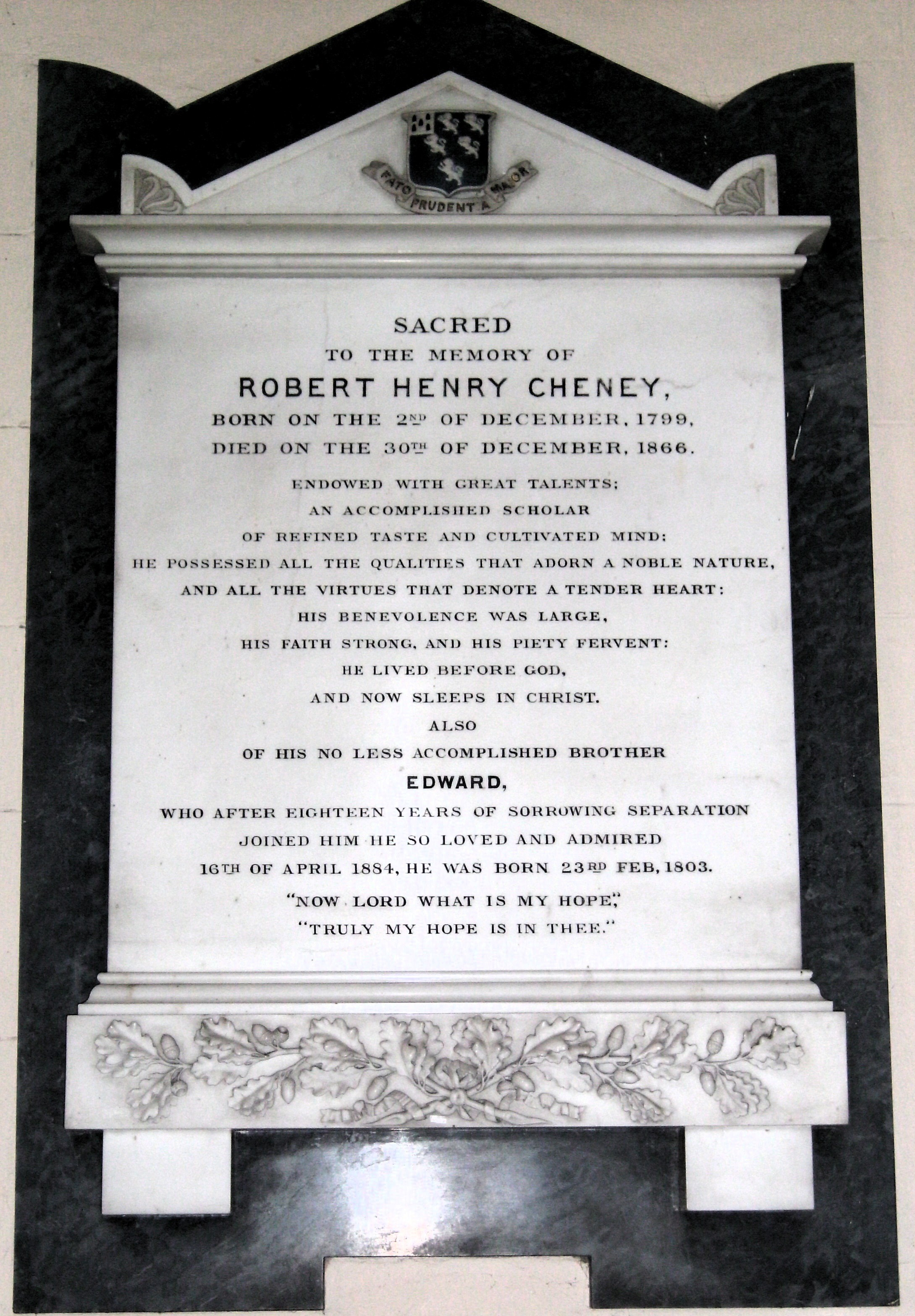 Memorial to the Cheney brothers, successive lords of the manor of Badger, Shropshire, in the parish church of St. Giles.